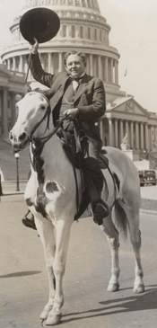 Percy Gassaway image